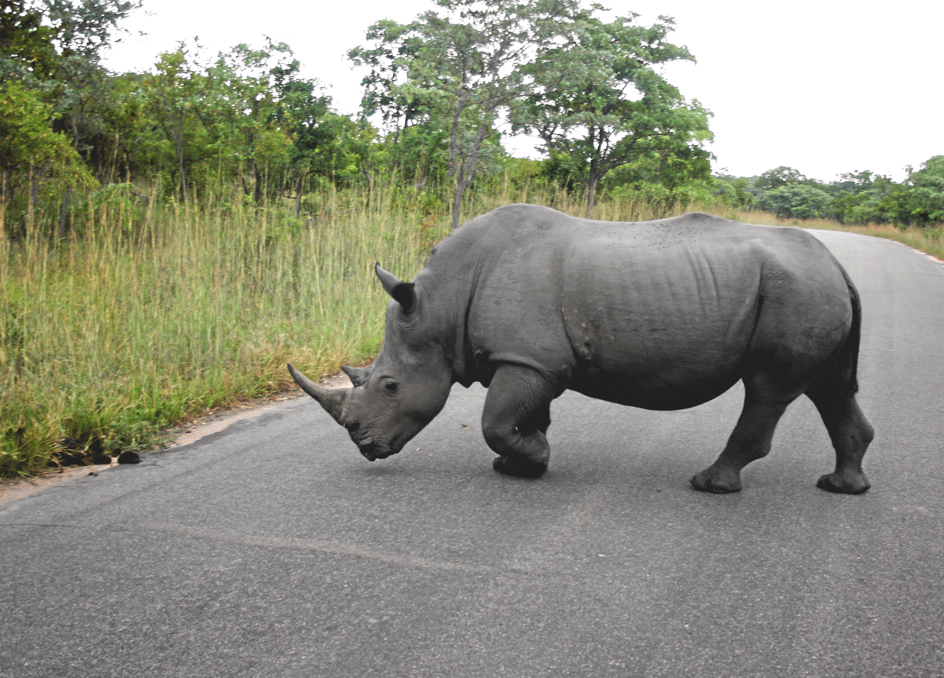 A white rhinoceros (Ceratotherium simum) in Kruger National Park marking its territory.